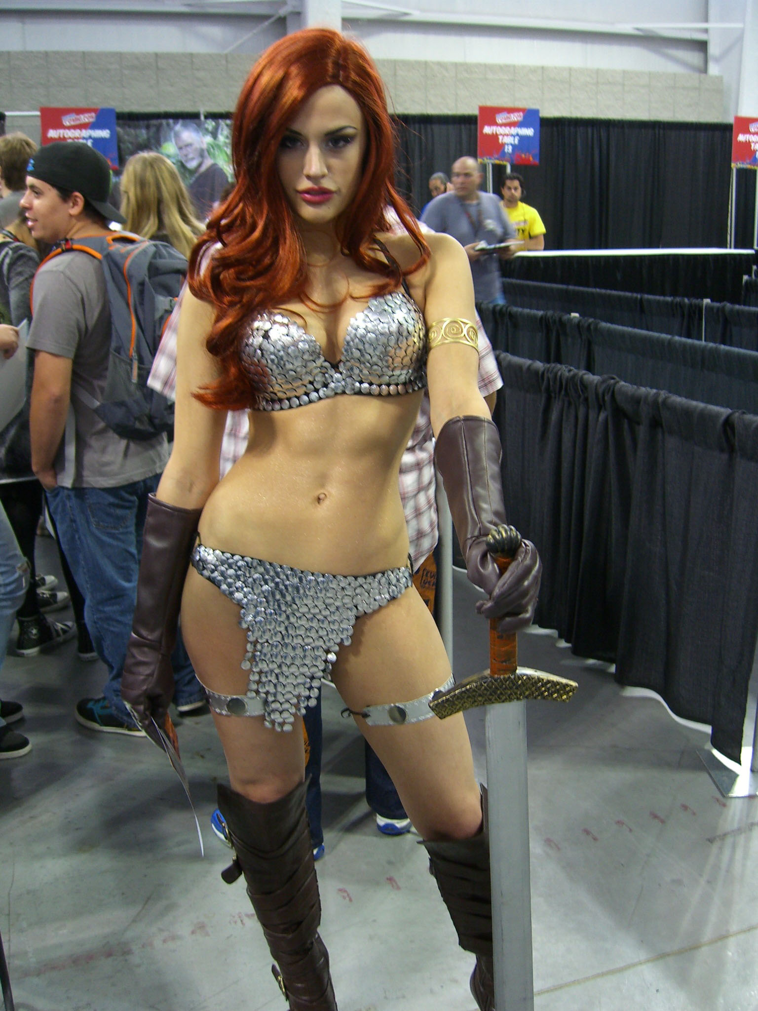 A cosplayer dressed as Red Sonja at the Image Comics booth at the New York Comic Con, October 15, 2011. This photo was created by Luigi Novi. It is not in the public domain, and use of this file outside of the licensing terms is a copyright violation.